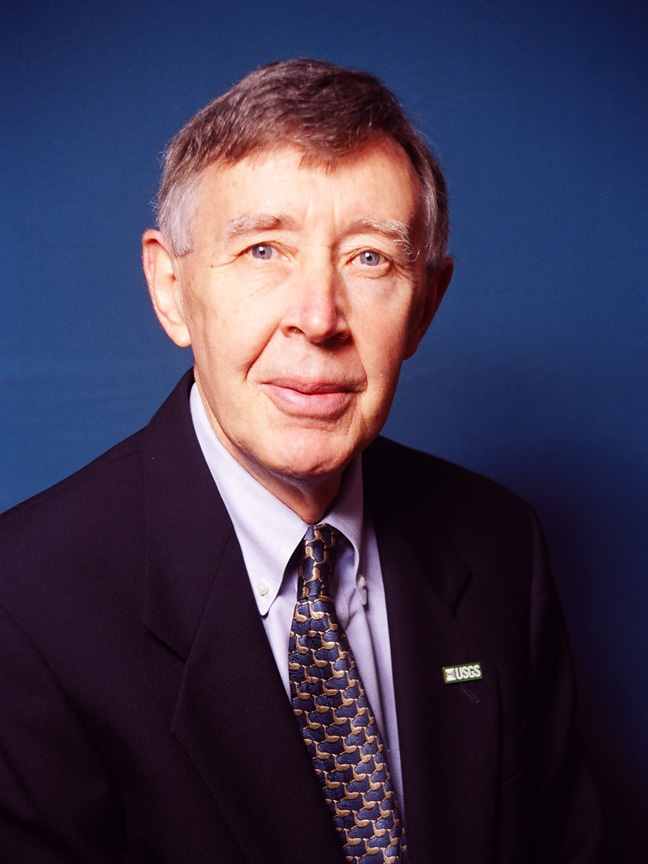 Image of Charles G. Groat (born 1940), an American geologist and 13th director of the United States Geological Survey